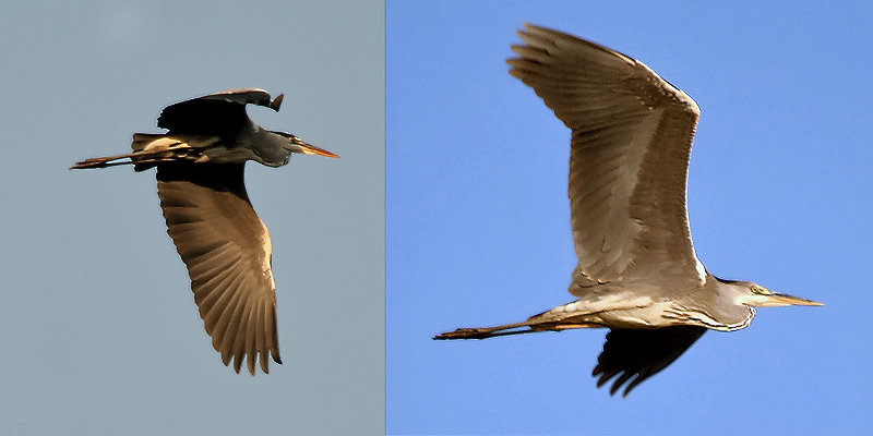 Grey Heron Ardea cinerea near Hodal in Faridabad District of Haryana, India.